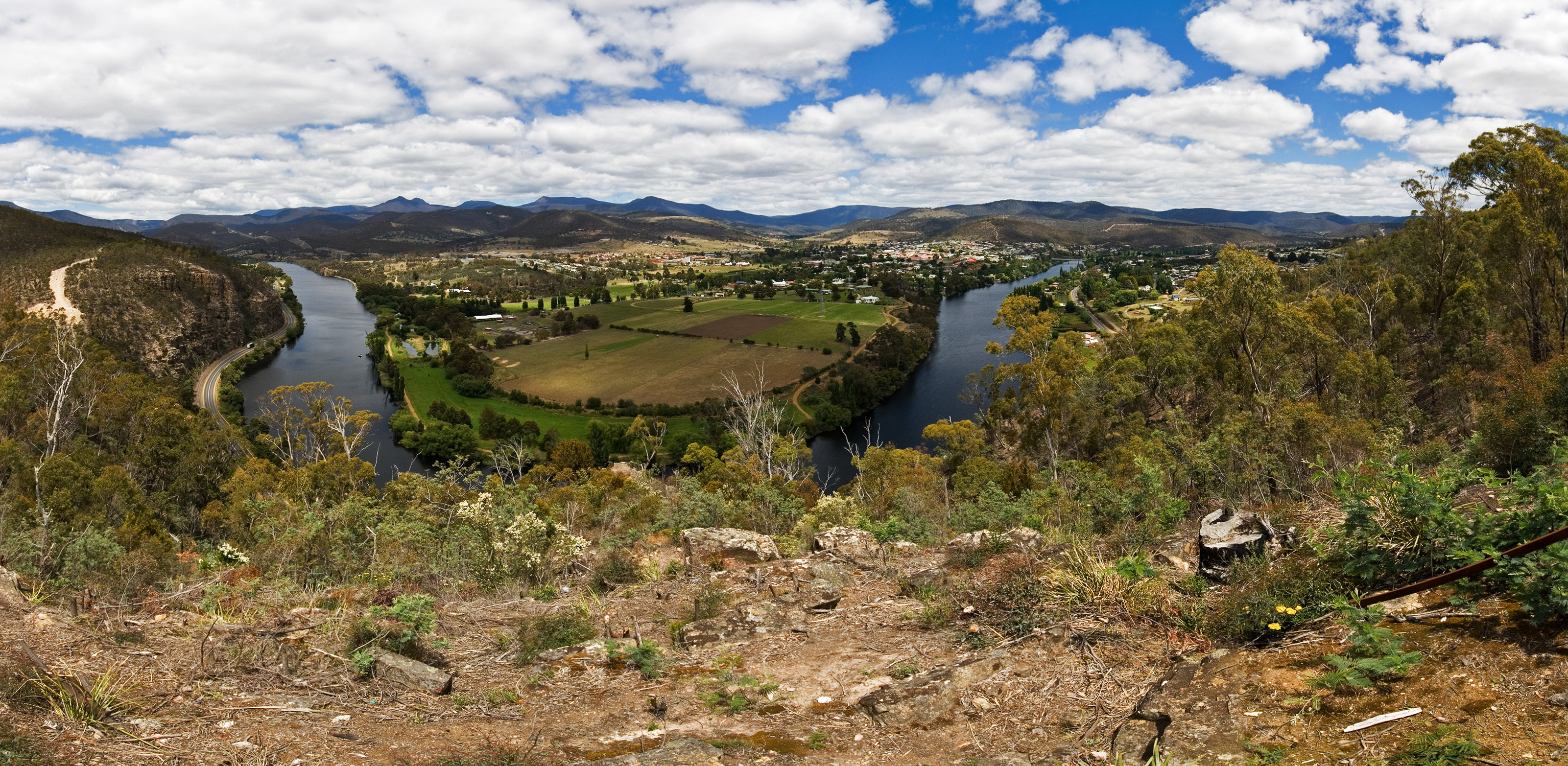 New Norfolk from Pulpit Rock Lookout